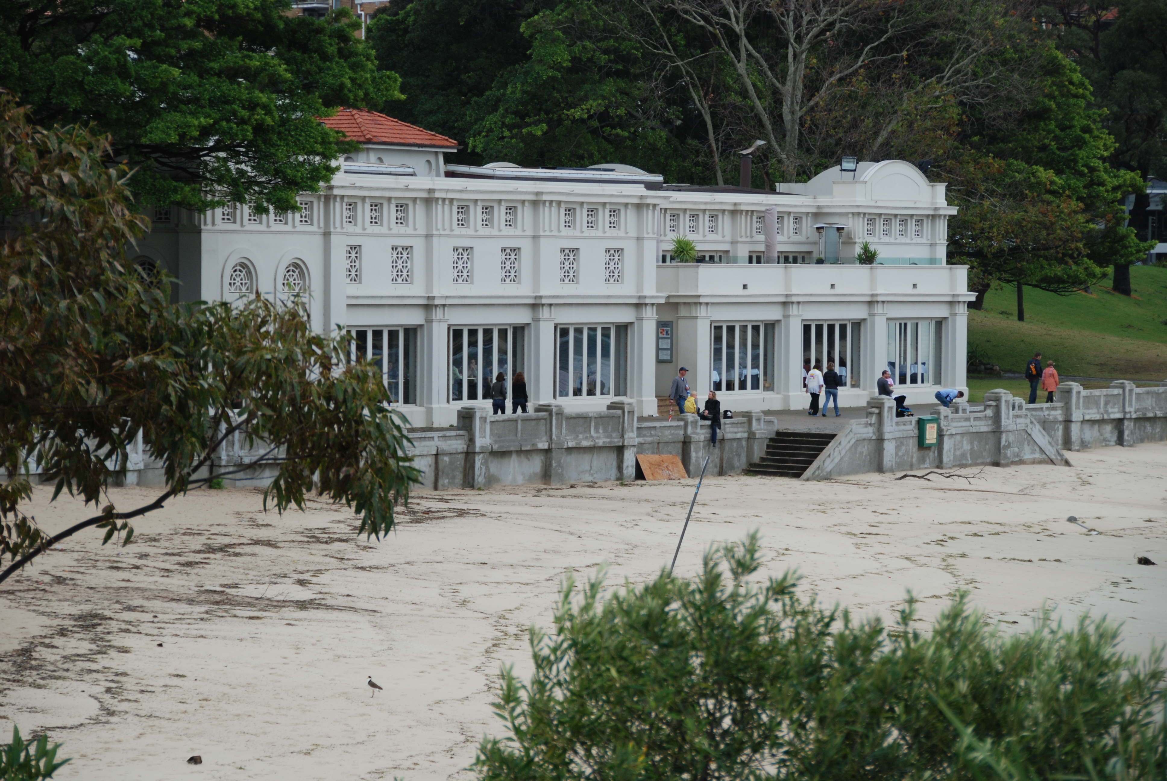 Balmoral Bathers Pavilion at Balmoral Beach in Sydney